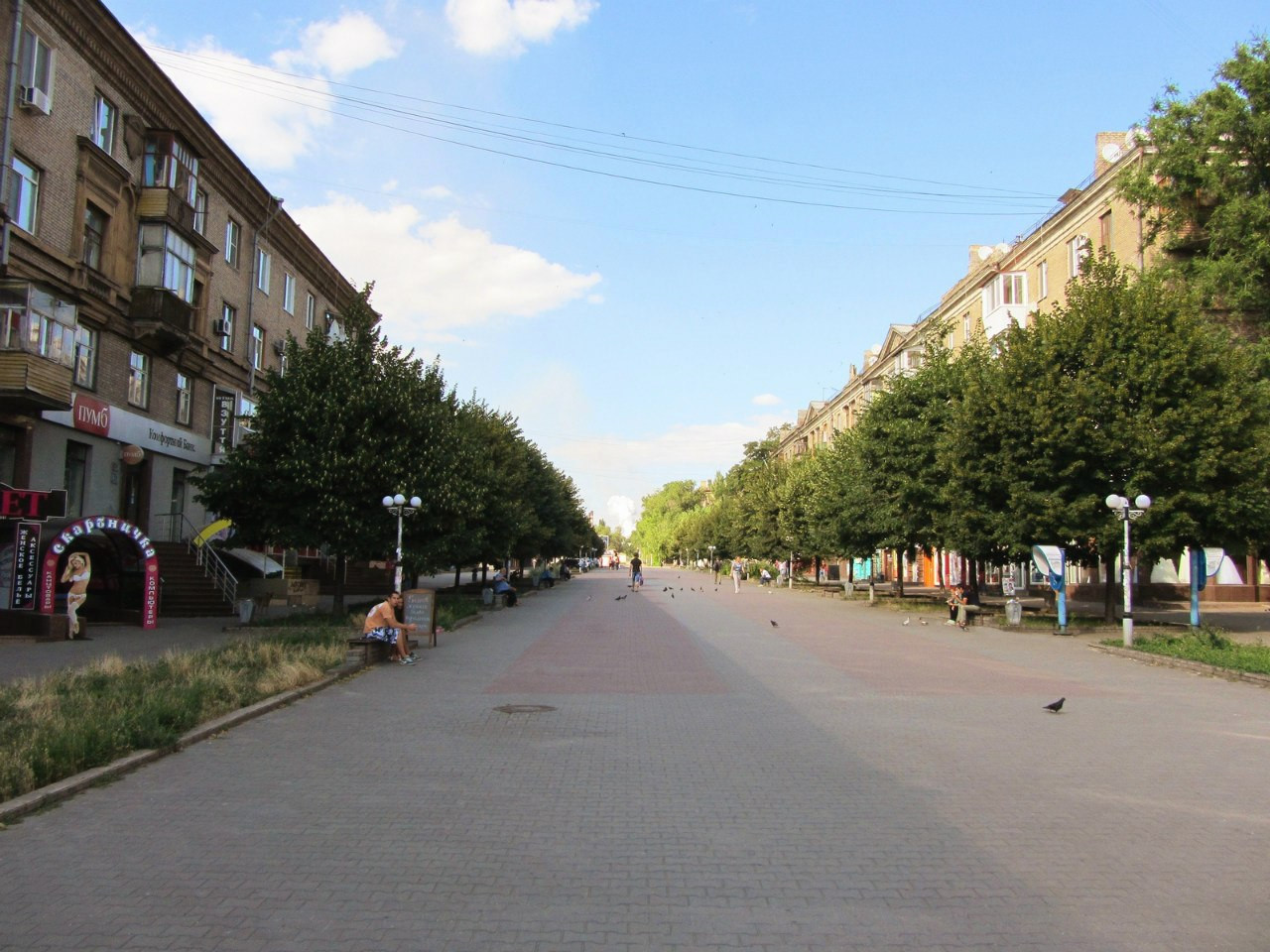 Pedestrian street in Zaporizhia